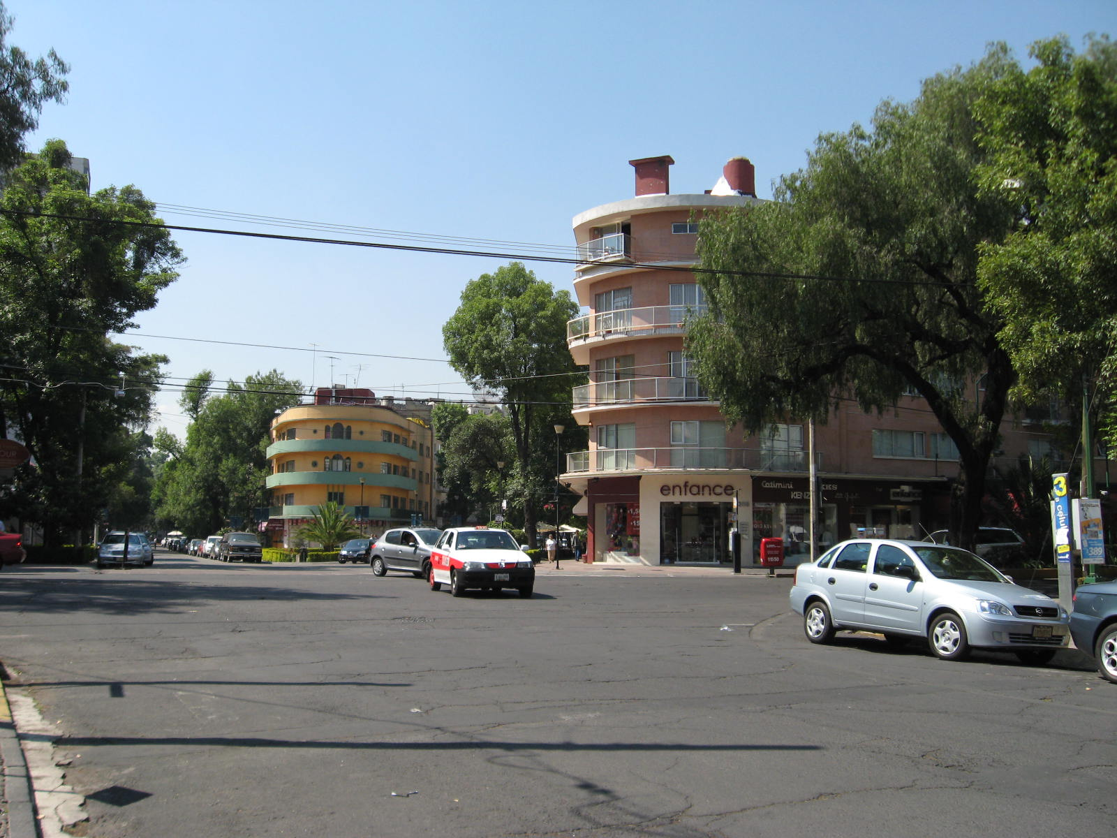 Intersection of Pres Masaryk and Alejandro Dumas streets in the Polanco neighborhood of Mexico City